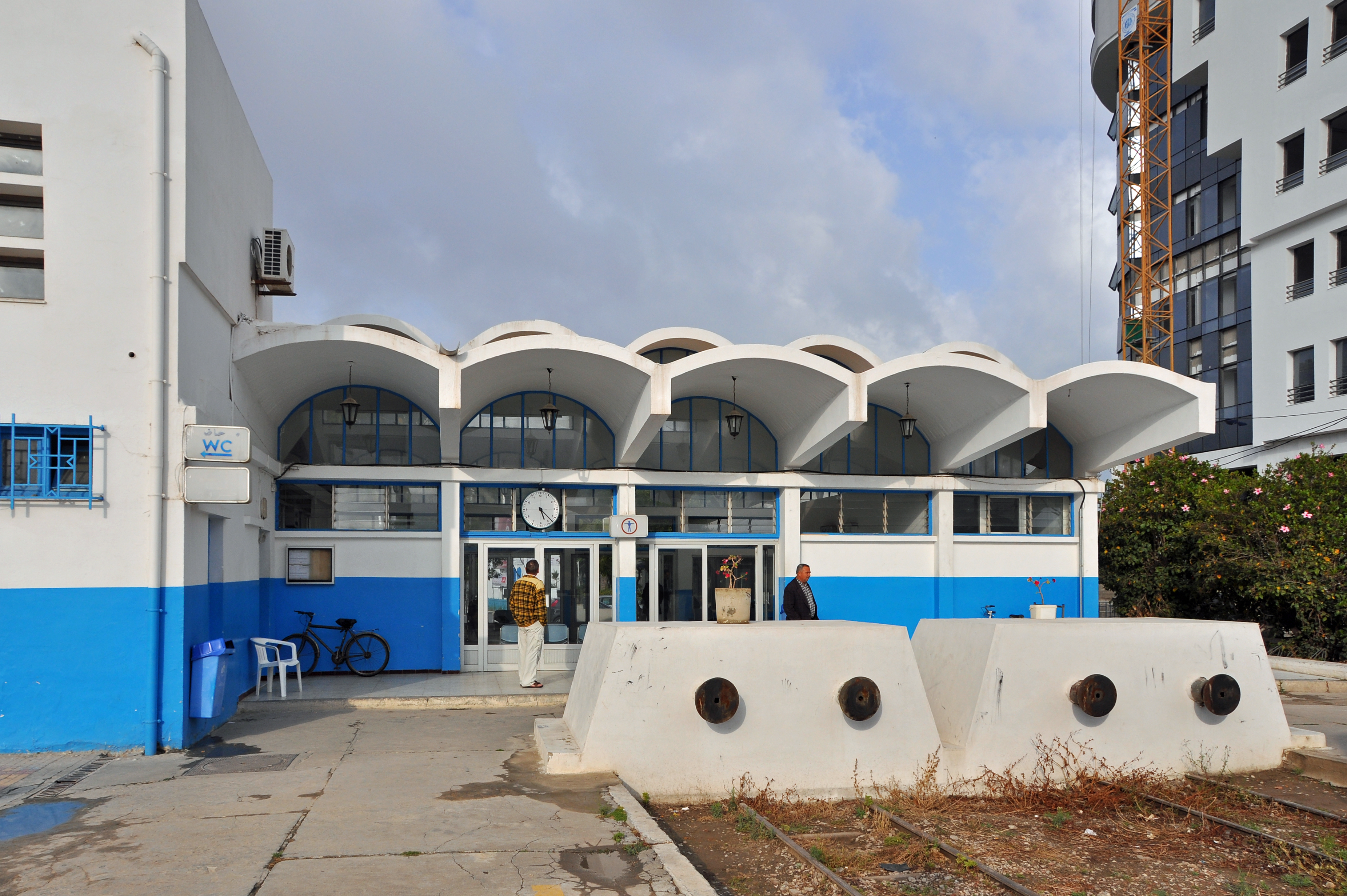 Nabeul railway station (Tunisia)